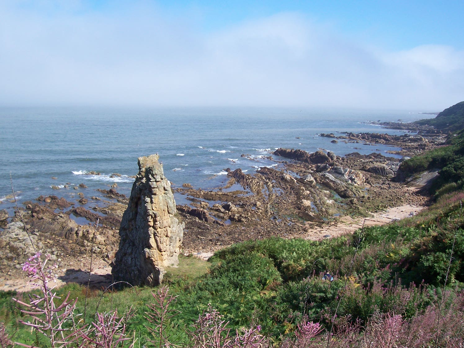 Fife Coastal path near St Andrews